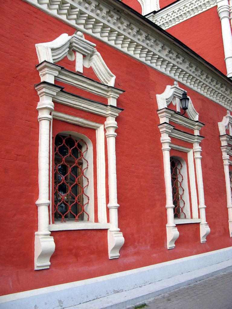 Church of Archangel Michael in Troparyovo, Moscow, 1693